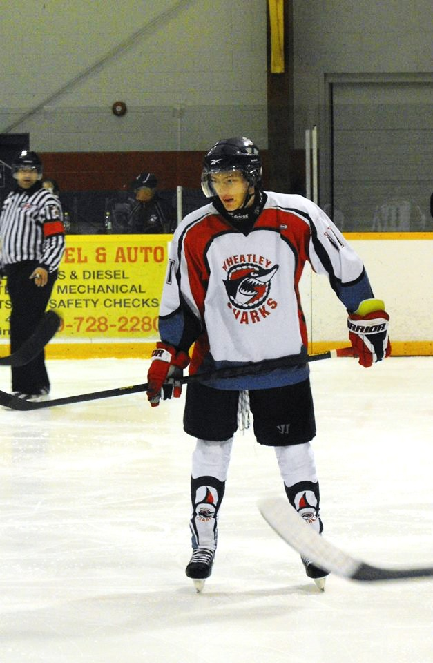 These images of GLJHL action are taken by Devan Mighton.